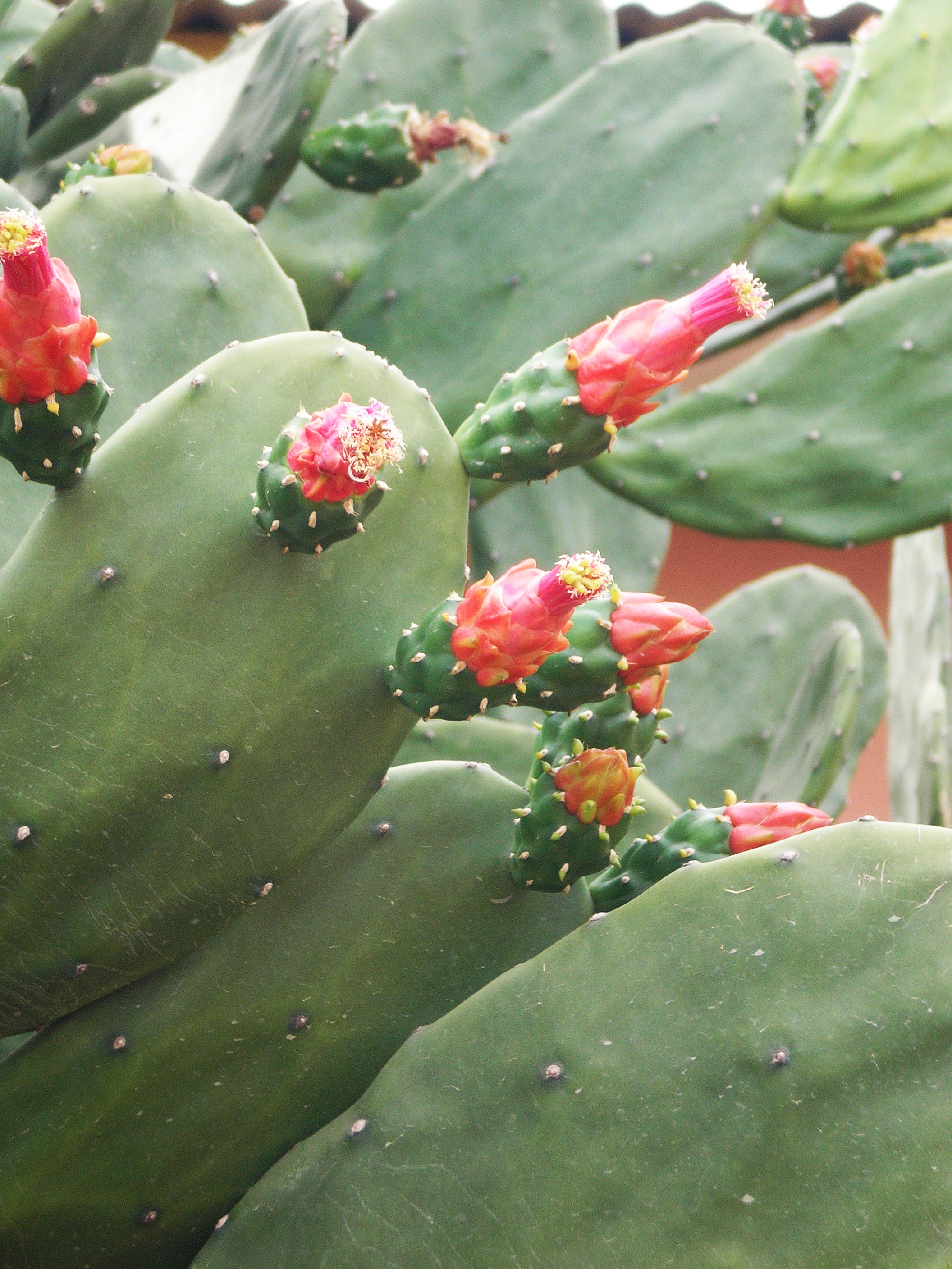 Closeup of the flowers of prickly pear cactus from Ghana. The plant is over 2 meters tall.